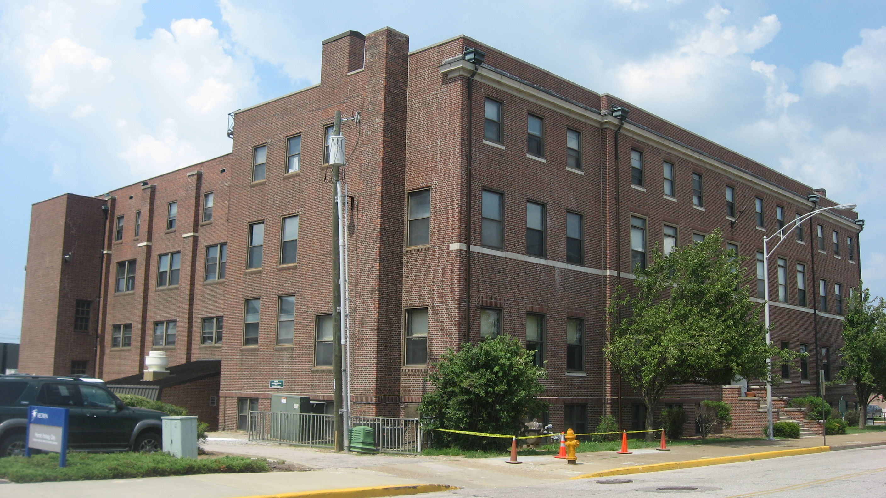 Southwestern side and front of Evansville YWCA, located at 118 Vine Street in Evansville, Indiana, United States. Built in 1924, it is listed on the National Register of Historic Places.